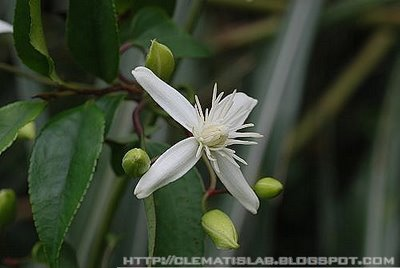 Clematis meyeniana Walp. ?????